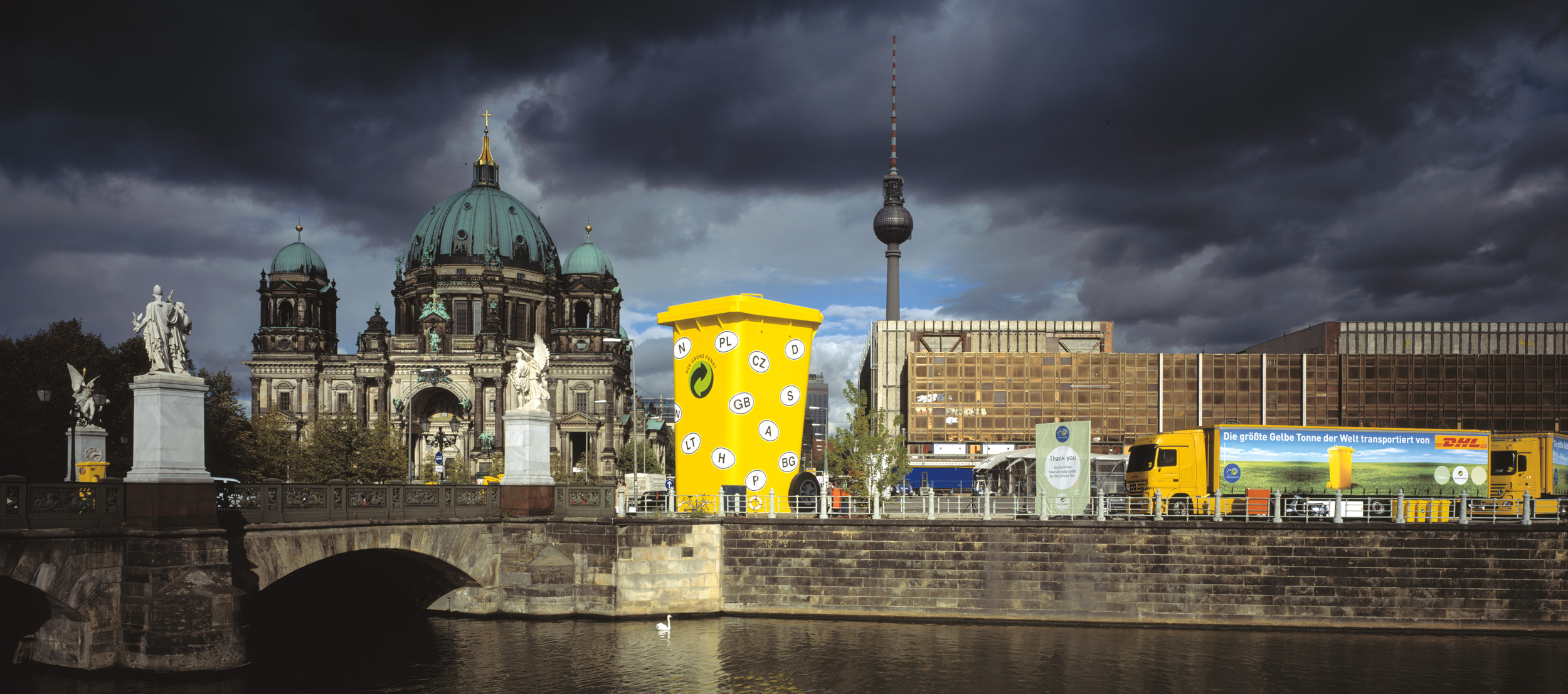 Otto Kasper Work for Gelbe Tonne and DHL.